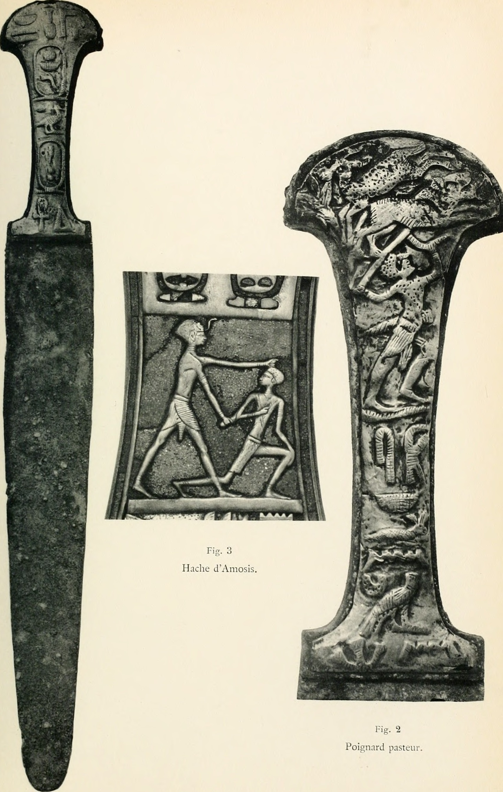 Title: Annales du Service des antiquités de l'Egypte Year: 1900 (1900s) Authors: Egypt. Wizarat al-Ashghal al-Umumiyah Egypt. Maslahat al-Athar Institut français d'archéologie orientale du Caire Subjects: Learned institutions and societies Publisher: Le Caire : Impr. de l'Institut français d'archéologie orientale Text Appearing Before Image: Monument funéraire trouvé à Kom el-Rahib. Photolypie Berthaud. Pans .Annaks du Service des Antiquités, T. VII. Text Appearing After Image: Fig. 2Poignard pasteur Fig. 1 Phototypia Berthaud, Pari» annales du Service des Antiquités, T. VU. Pi. I